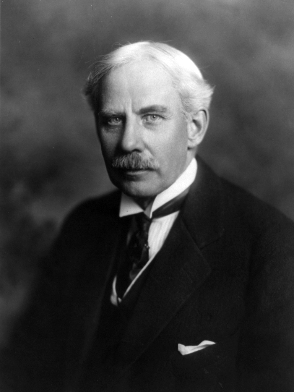 Irving Bacheller, head-and-shoulders portrait. Note: Photo in Library of Congress is reversed.